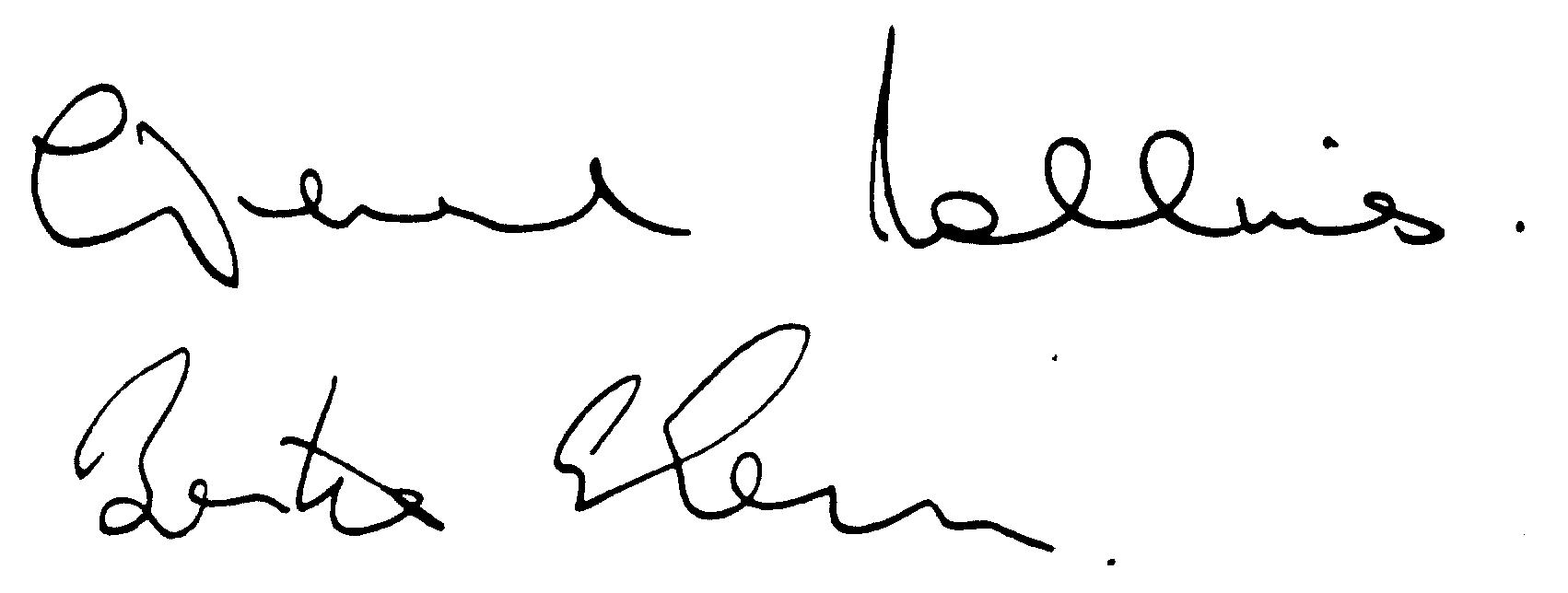 Maastricht Treaty - Final Act Signature by Irelands representatives